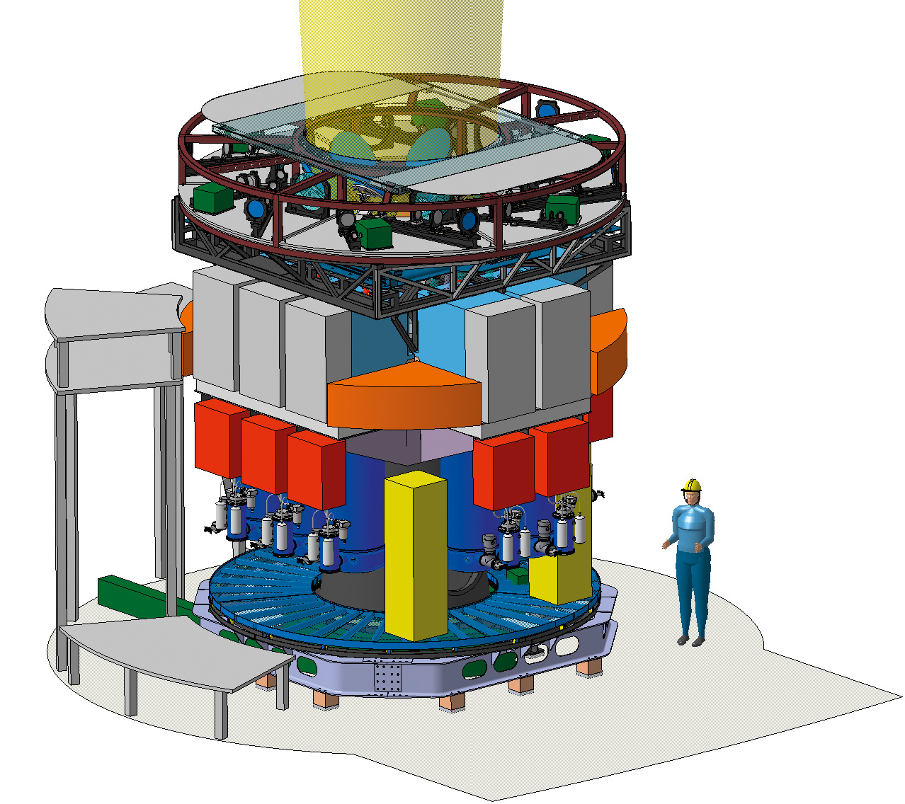 3D design of the E-ELT instrument EAGLE (Extremely Large Telescope Adaptive optics for GaLaxy Evolution instrument), an adaptive optics-assisted multi-integral field near-infrared spectrometer.